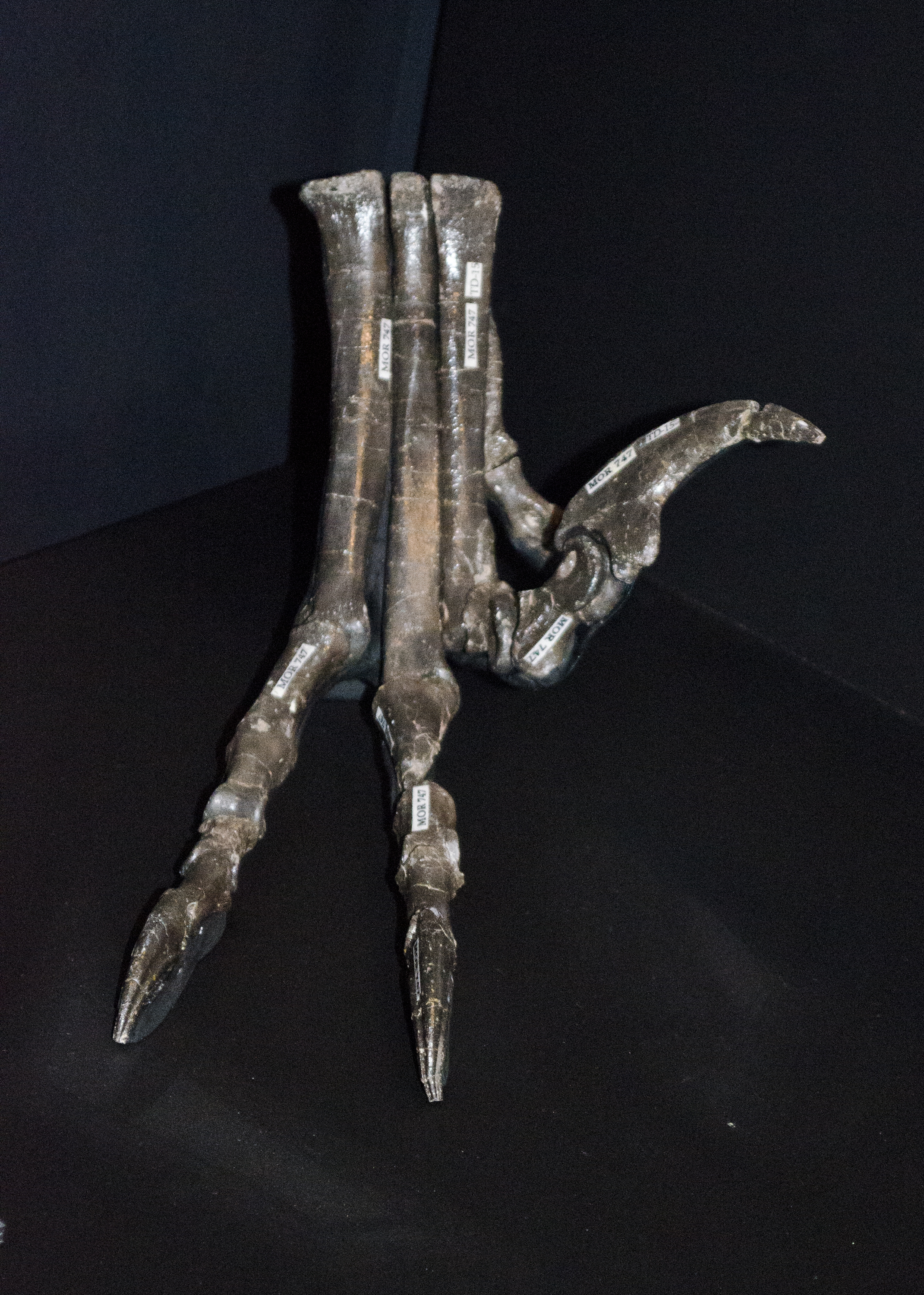 Fossil foot of a Deinonychus on display in the Museum of the Rockies in Bozeman, Montana. This specimen was collected in Carbon County, Montana. A synonym for Deinonychus is the more familiar "Velociraptor" (made famous by the Jurassic Park movies). Deinonychus antirrhopus was first discovered in 1931 near Billings, Montana. Its name means "terible claw", because it could lift the middle toe of its heavily clawed foot and slice with it like a razor. In the late 1960s, paleontologist John Ostrom published a series of papers about Deinonychus that completely revolutionized the way we think about dinosaurs. Previously, scientists thought of them as plodding, slow, cold-blooded creatures. But Ostrom proved that Deinonychus couldn't be cold-blooded, and was undoubtedly lightning-fast and very agile. Within just a few years, everyone accepted that dinosaurs had to be warm-blooded, and most were extremely active and mobile. This was the "Dinosaur Revolution" or "Dinosaur Renaissance", and it governs the way we think about dinos today. Deinonychus lived 115 to 108 million years ago in western North America. It was about 11 feet in length, and tended to run with its head lowered and tail stuck straight out as a counterbalance. In this position, it was only about three feet high at the hip. It weighed no more than 160 pounds. The 16-inch-long skull had 70 curved, blade-like teeth in a very narrow snout and it had stereoscopic vision. Deinonychus had strong forelimbs, powerful and very large hands, and three claws on each hand. The middle of the three toes on each hind foot had a sickle-shaped claw. The snap-tendons on that toe permitted it to be used like a scythe! Deinonychus was originally thought to be like most dinos -- reptilian and hairless. But since ancestors and close relatives of Deinonychus had feathers, it is bellieved that Deinonychus did as well.